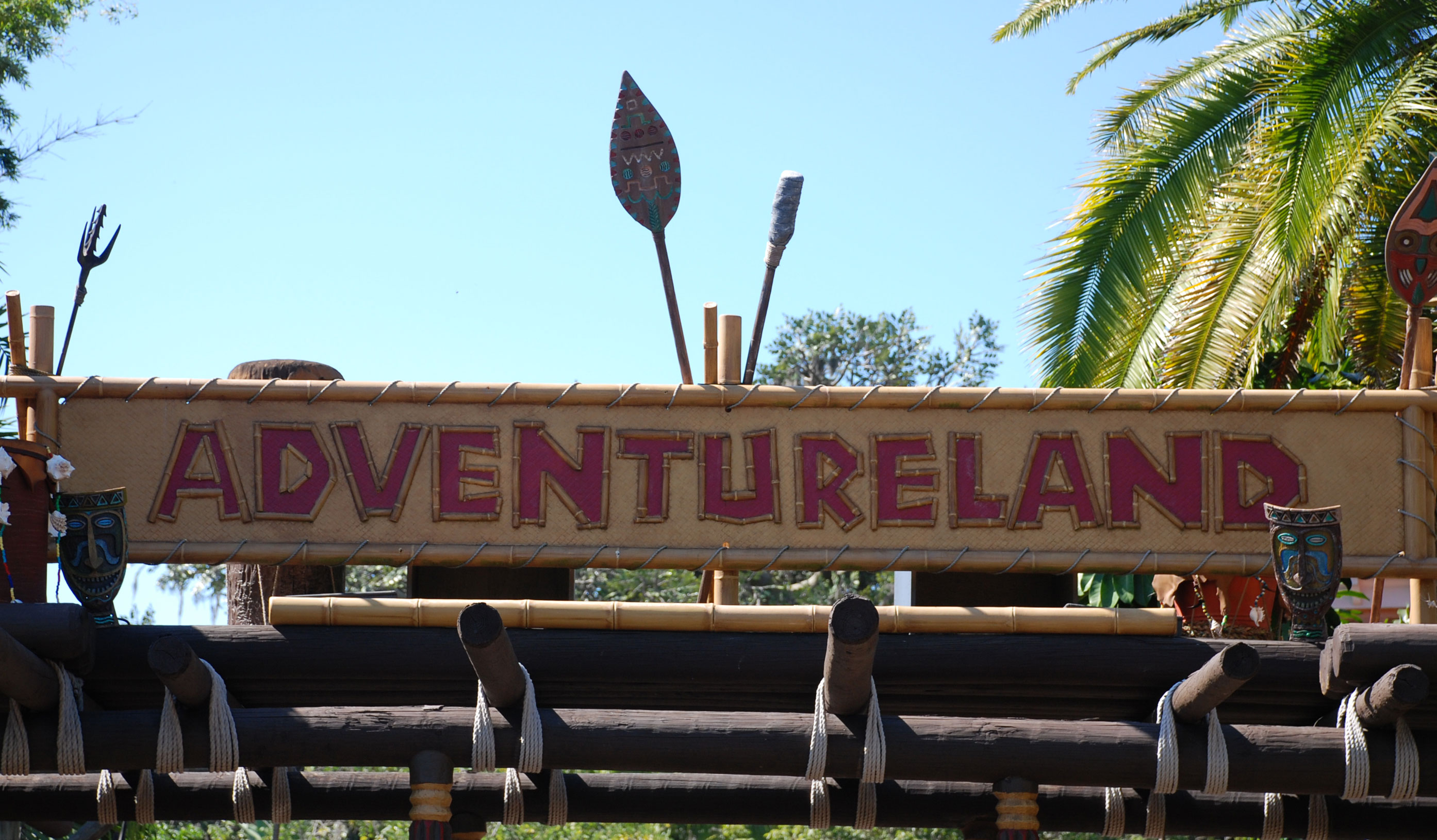 Walt Disney World - Entrance to Adventureland